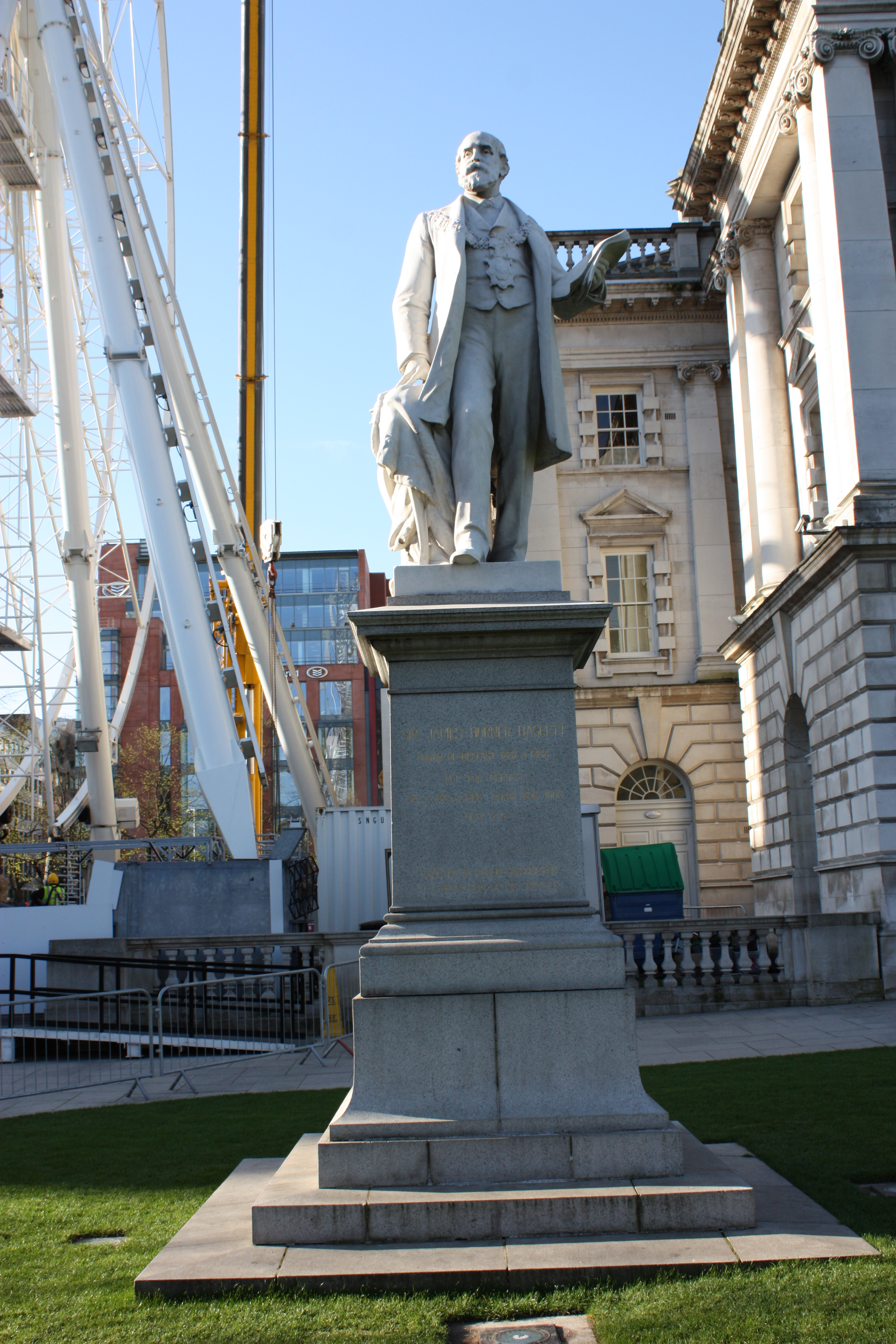 Statue of Sir James Horner Haslett, outside Belfast City Hall, Belfast, Northern Ireland, April 2010